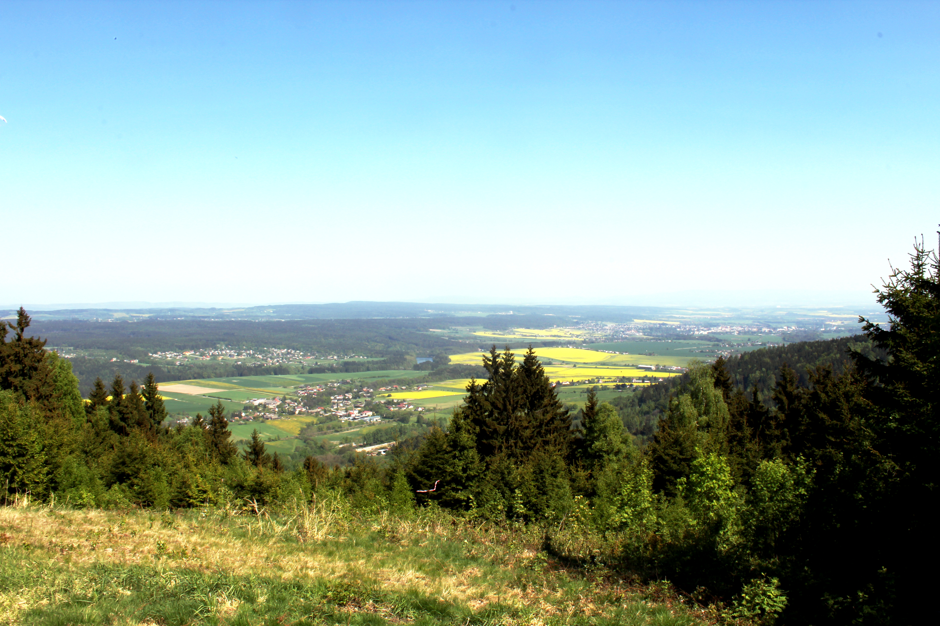 View from the hill Zvičina on villages Dolní Brusnice a Bílá Třemešná in east Bohemia, Czech Republic